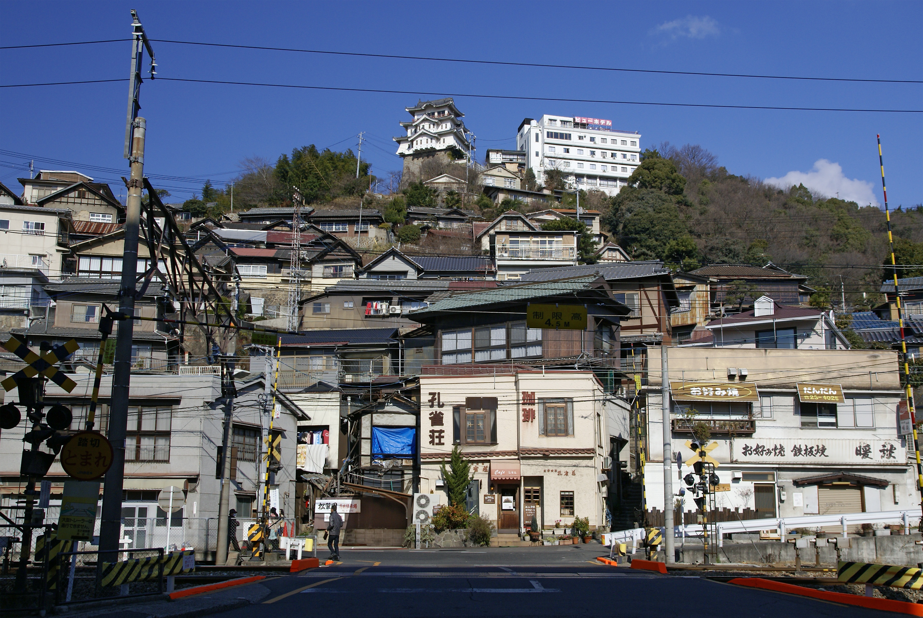 Onomichi Castle in Onomichi, Hiroshima prefecture, Japan